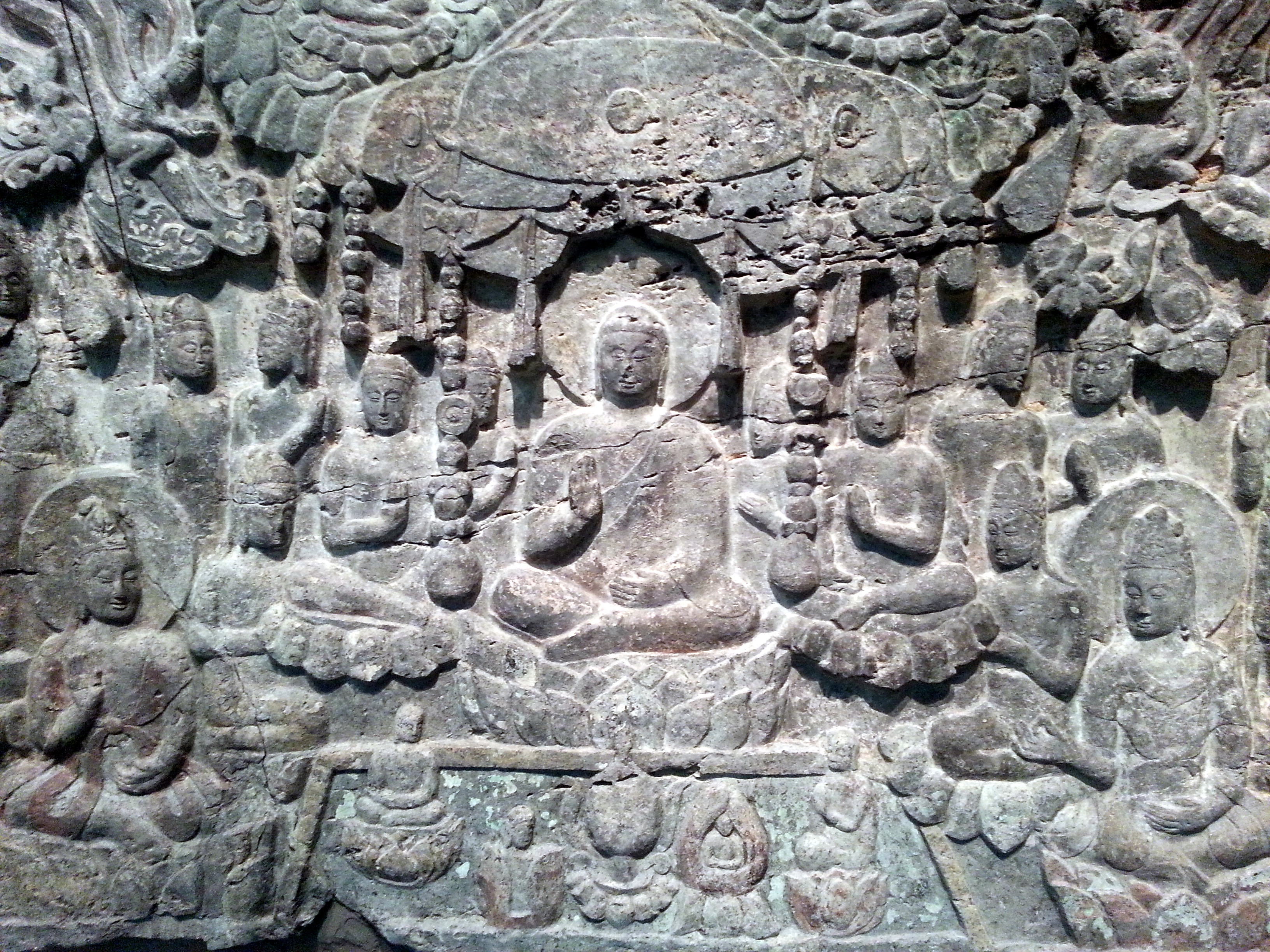 Photograph of a relief showing the western paradise of the Amitabha buddha from Cave 2 of the Xiangtangshan Caves at the Freer Gallery of Art, Smithsonian Institution, Washington, DC. The relief dates from the Northern Qi dynasty (550-577), it carved in limestone and shows traces of pigment.